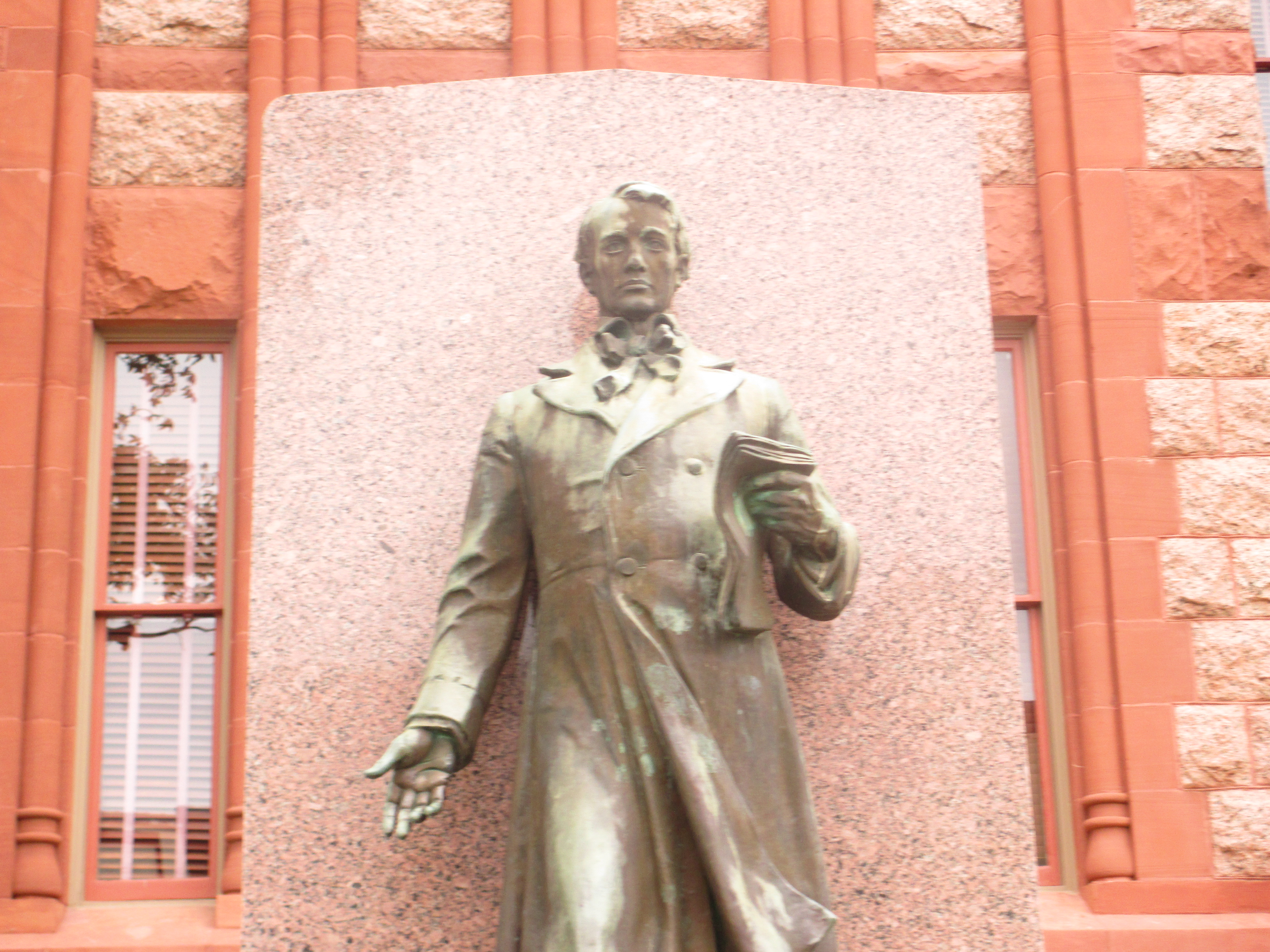 Statue of Richard Ellis (1781-1846) at Ellis County, TX, Courthouse. Sculptor Attilio Piccirilli created the statue for the 1936 Texas Centennial.